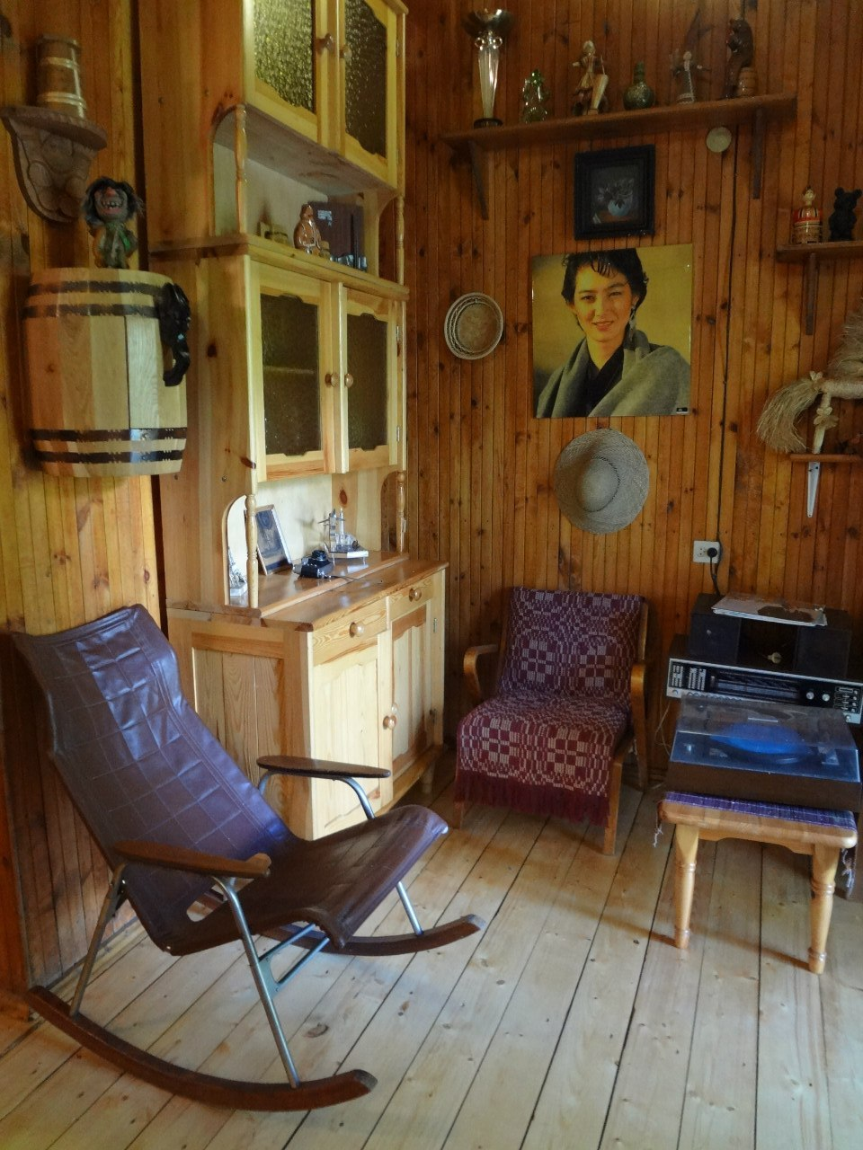 Museum of Belarusian writer Vasil Bykaǔ